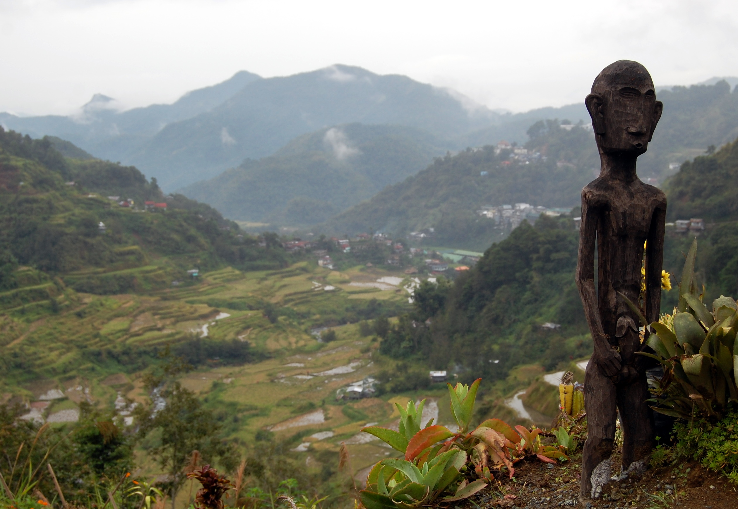 The Bulol is an Ifugao rice god carved from wood. There are 2 main types of carved Bulol in Ifugao: the squating type common in the Kiangan-Lagawe area and the standing type of Banaue.